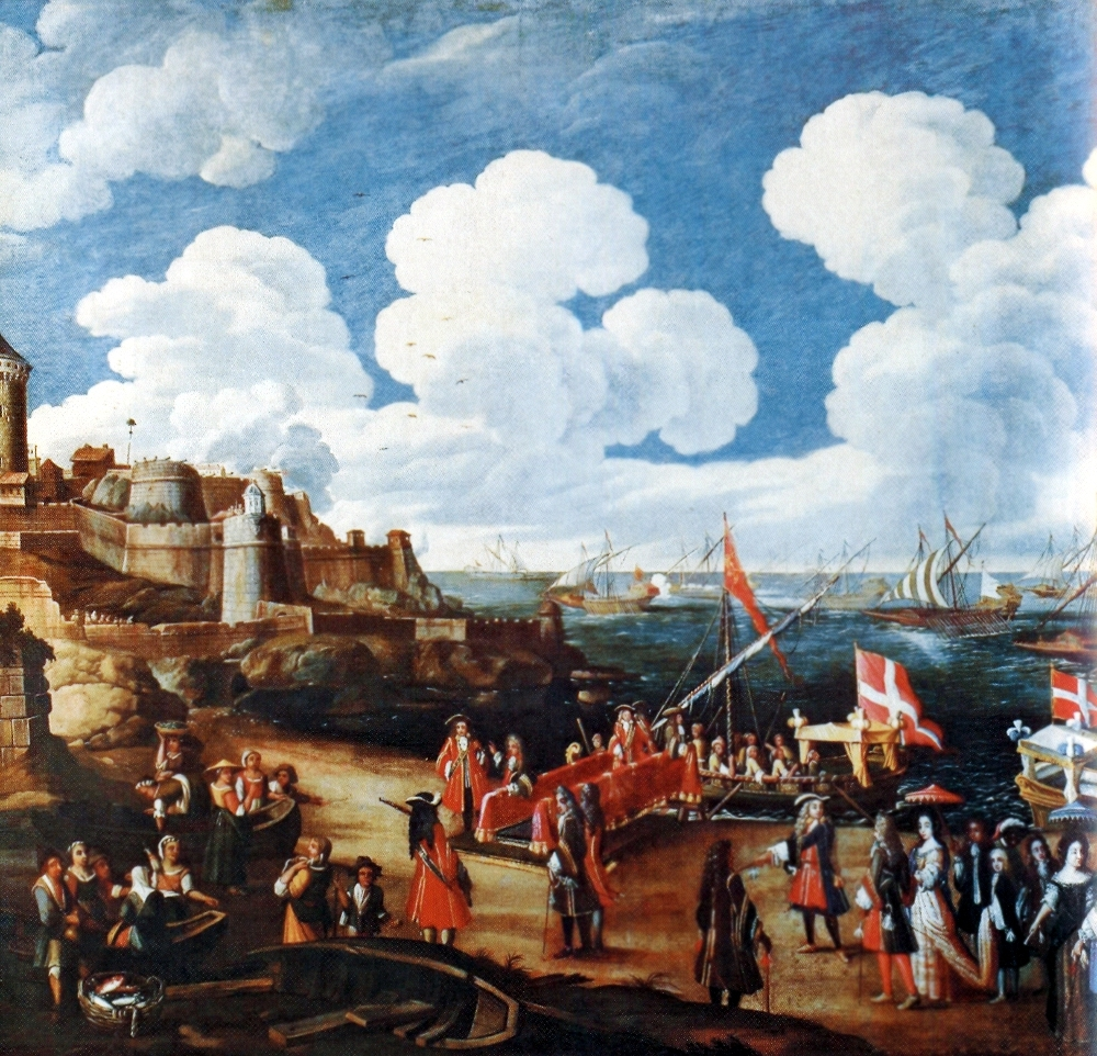 The Duke and Duchess of Savoy departing from Nice, France for Palermo to be crowned King and Queen of Sicily, 1713, unknown artist